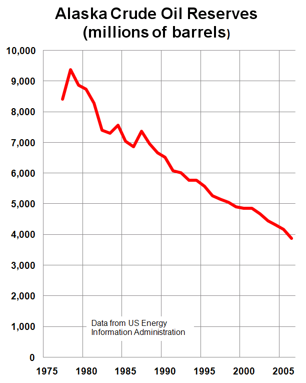 Graph of Alaska crude oil reserves from 1977 to 2006, created using MS Excel with data from the US Energy Information Administration